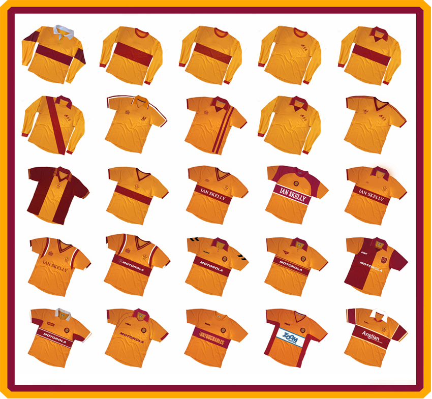 A representation of Past Motherwell Home tops. Drawn in Photoshop so there may be some discrepancies